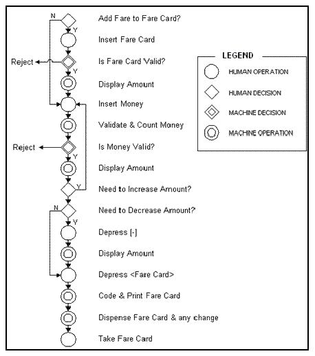 Subway Fare Card Machine Flow Process Chart: Flow Process Charts - These charts are used to depict the sequence of operator activities or information transfer as part of a system. A Flow Process Chart (FPC) is vertically oriented and can be annotated on either side with a time scale if the data is available. These charts are developed to detail operator tasks and incorporate human and machine decision points.